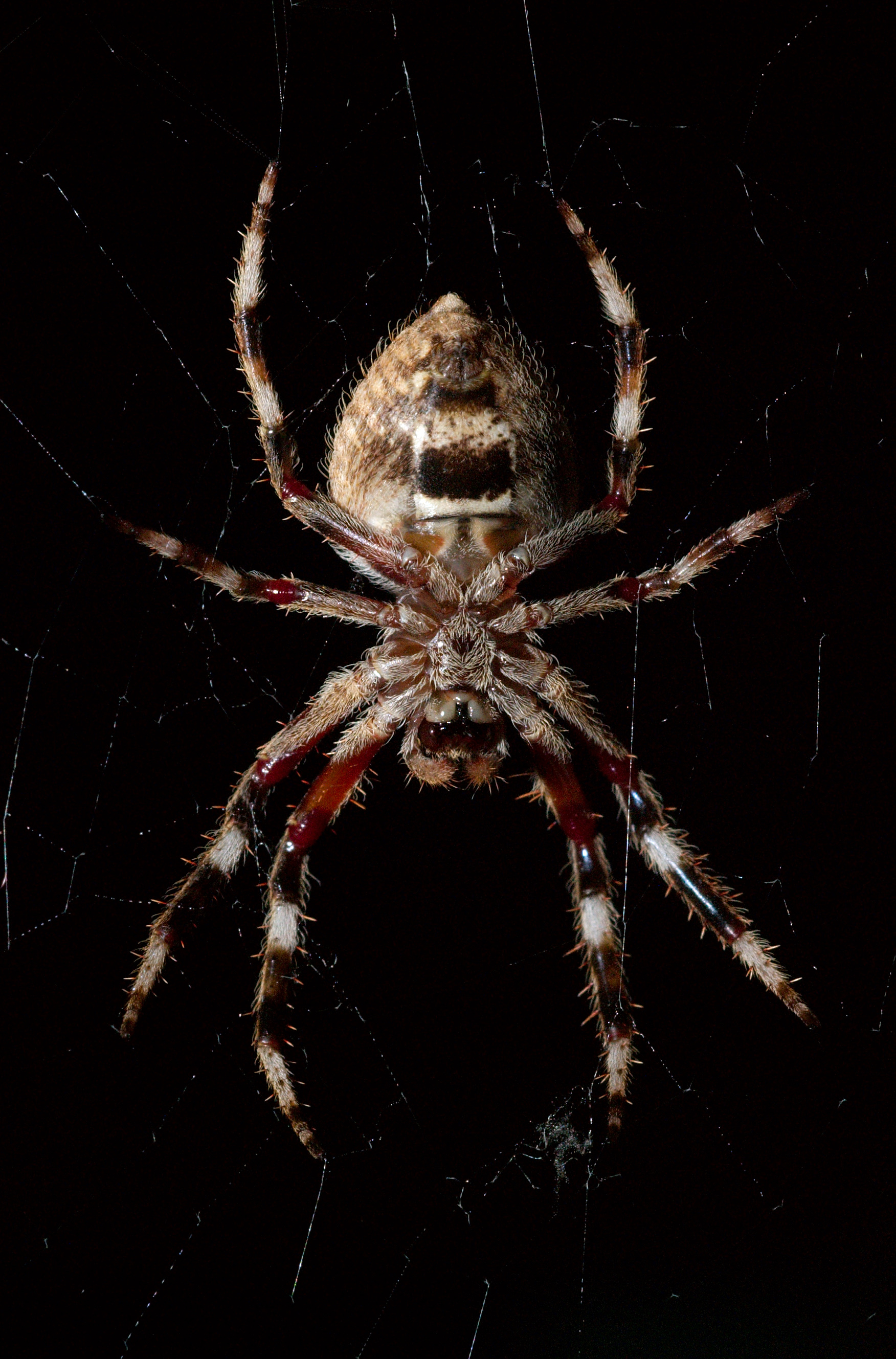 Australian garden orb weaver spider ( Eriophora transmarina) closeup shot at night. Ingle Farm, South Australia